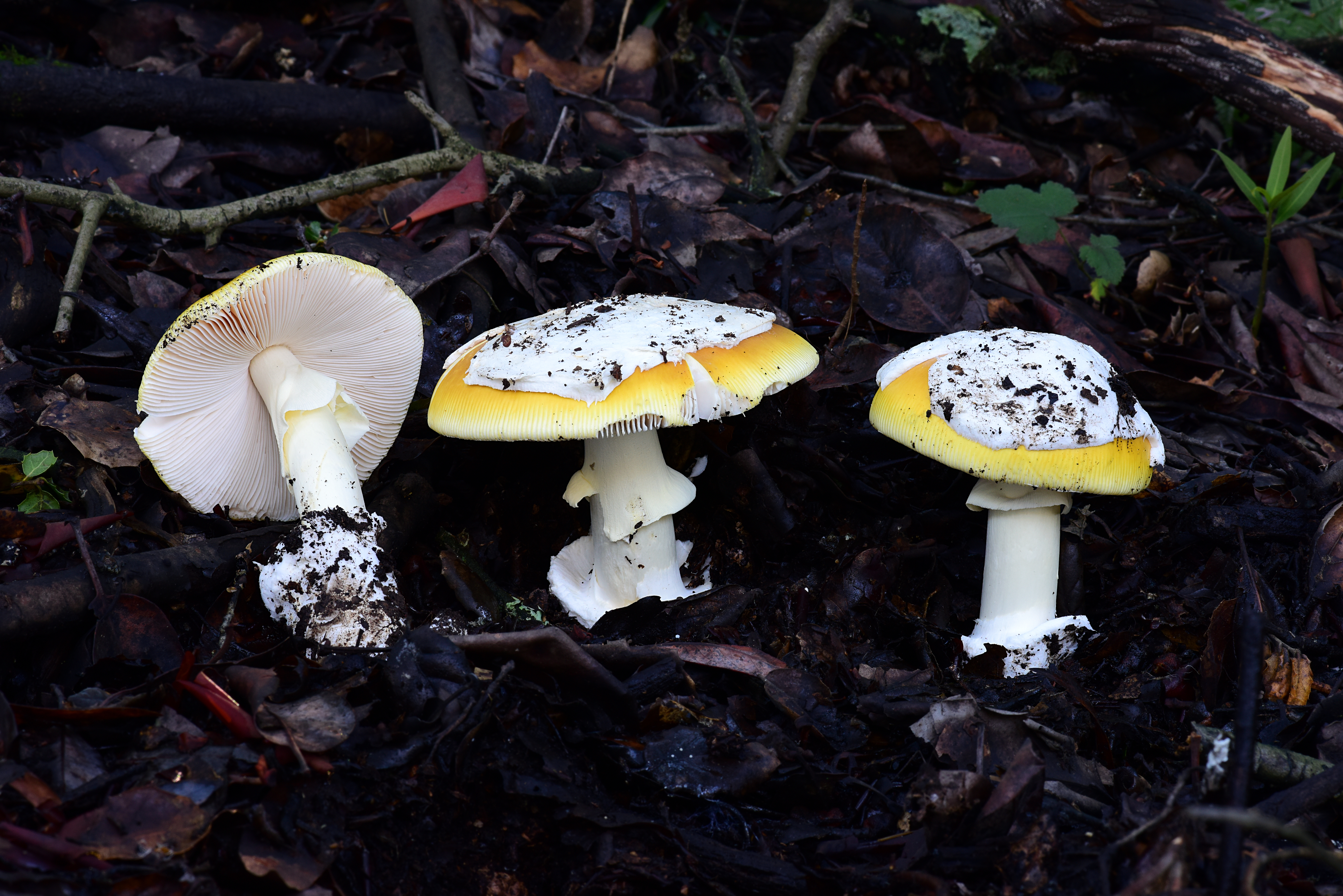 This is Amanita calyptroderma from Redwood Regional Park, Oakland.